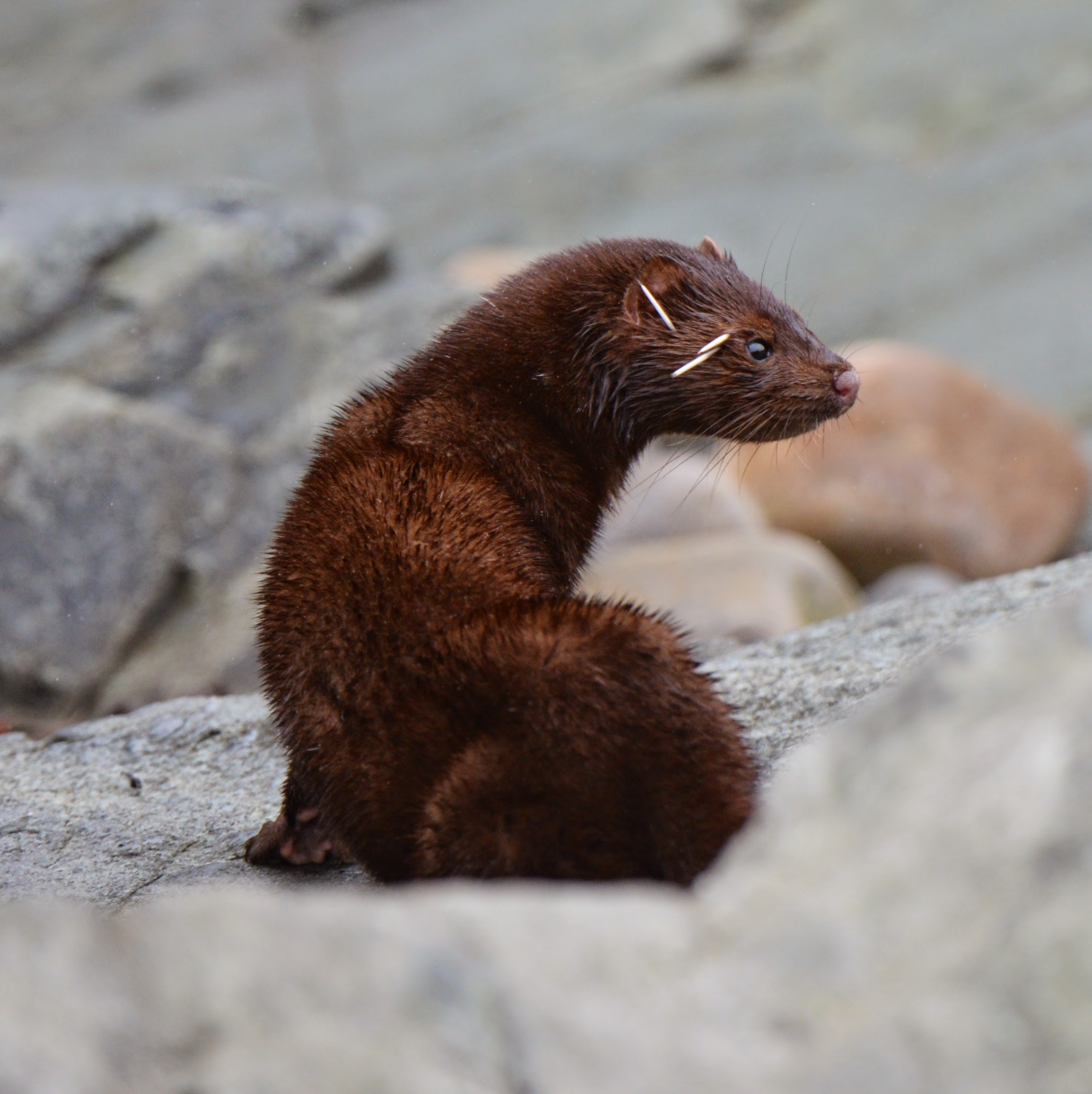 American mink (Neovison vison) with quills lodged in its face. On the beach near the Cape Forchu Lightstation, Yarmouth, Nova Scotia.